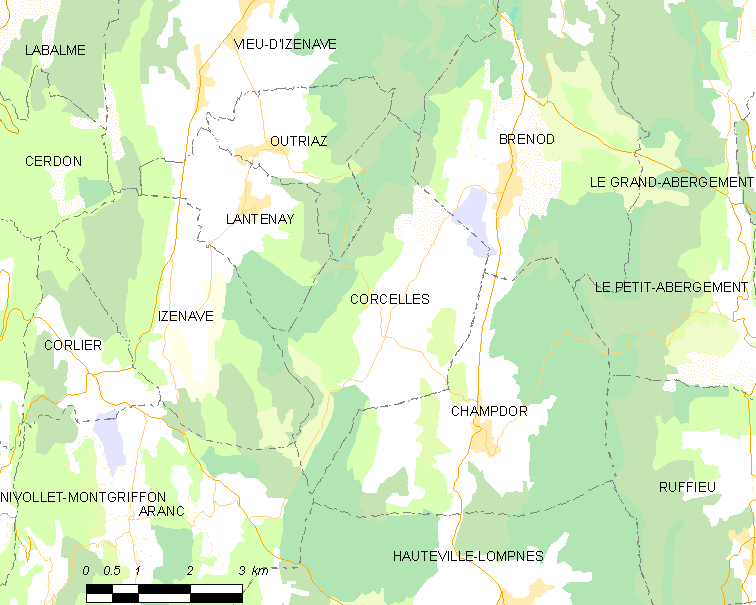 Map of French commune: Corcelles Map commune FR insee code 01119.png